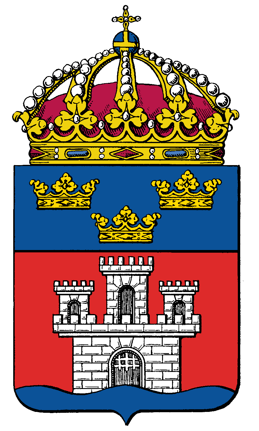 Coat of arms of the province of Jönköping